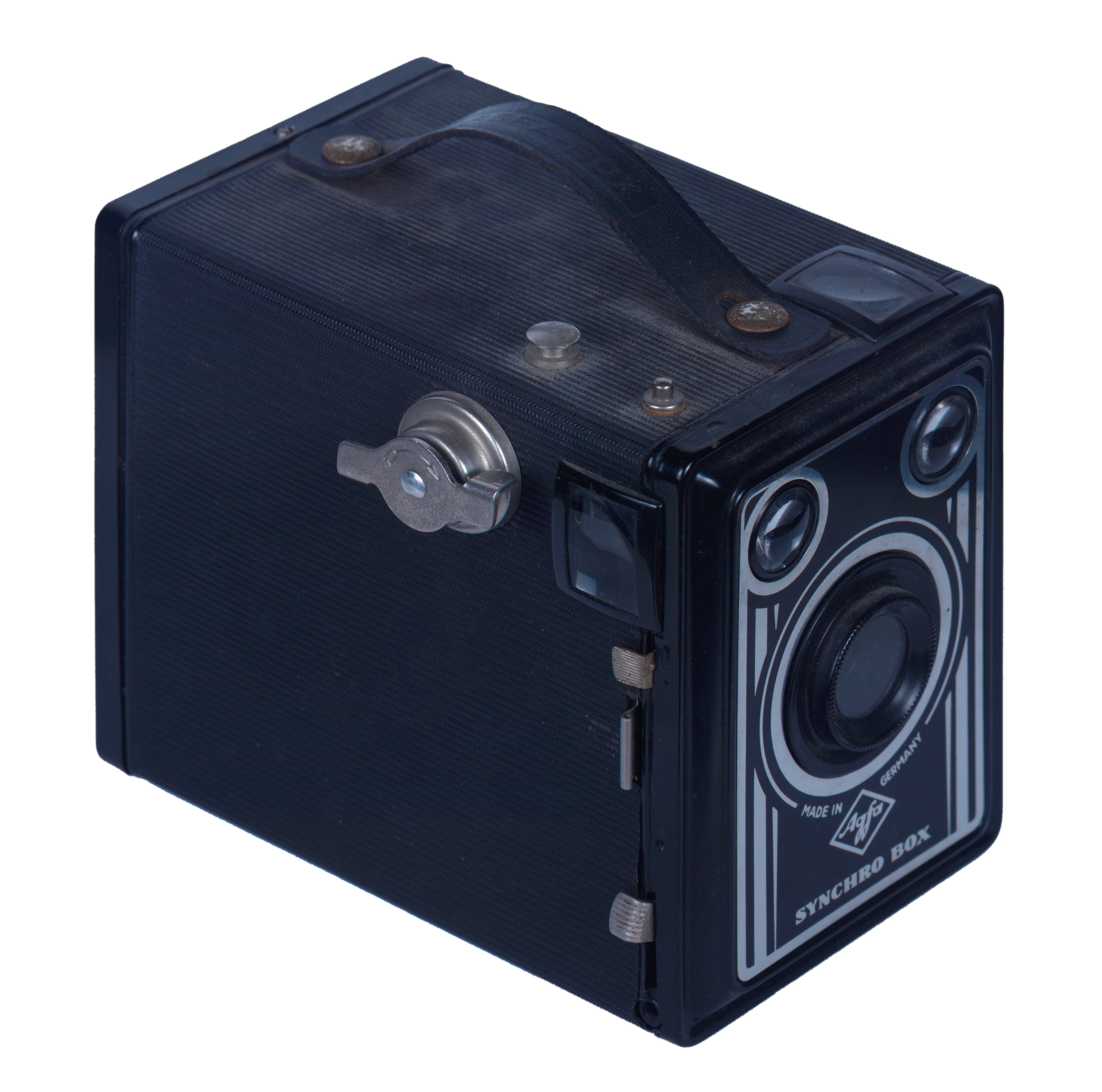 Agfa Synchro Box, manufactured by Agfa from 1949 to 1958